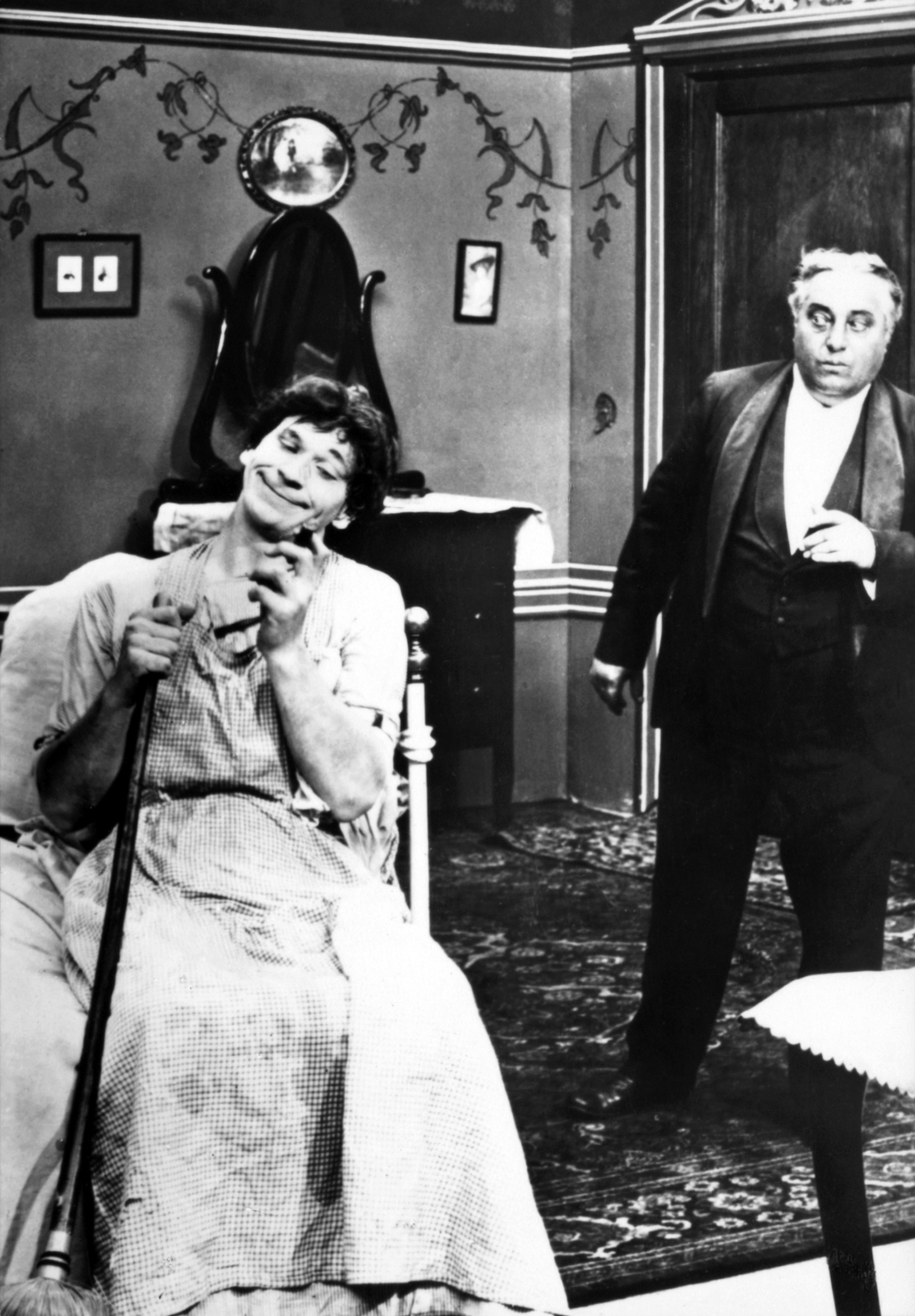 Digital ID: TH-09555 Source: Billy Rose Theatre Collection photograph file / Productions / Dreamy Sweedy (cinema 1914) ( Repository: The New York Public Library. The New York Public Library for the Performing Arts. Billy Rose Theatre Division. See more information about and others at Persistent URL: Rights Info: No known copyright restrictions; may be subject to third party rights (for more information, Wallace Beery made his name as Sweedie the Swedish maid in a series of short films 1914–1916.